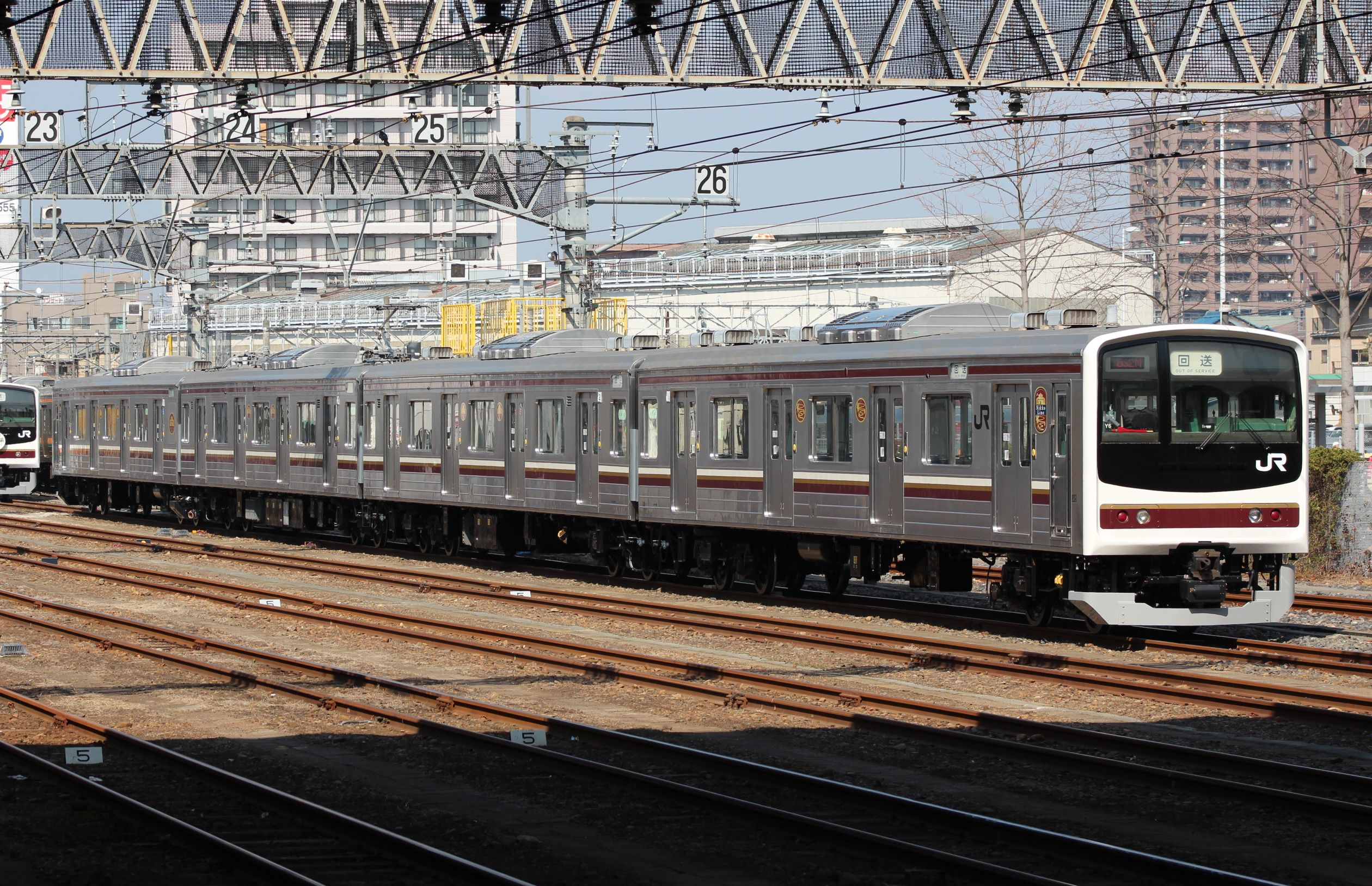 JR East 205-600 series Nikko Line EMU set Y6